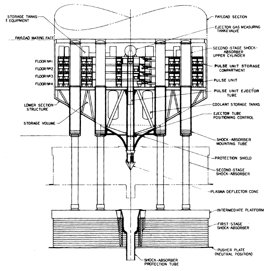 Project-Orion propulsion-module with pusher plate, two-stage shock absorber and pulse unit storage and ejection compartment.